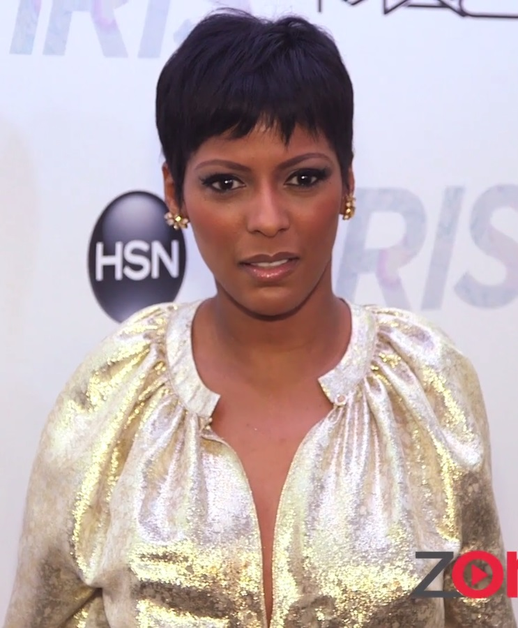 American television journalist Tamron Hall at the New York City Red Carpet Premiere of Iris (documentary about Iris Apfel).